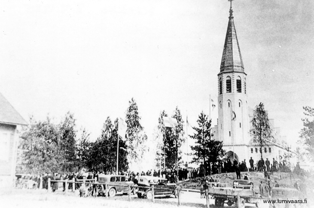 The consencration of the lutheran church of Lumivaara in 7 July 1935